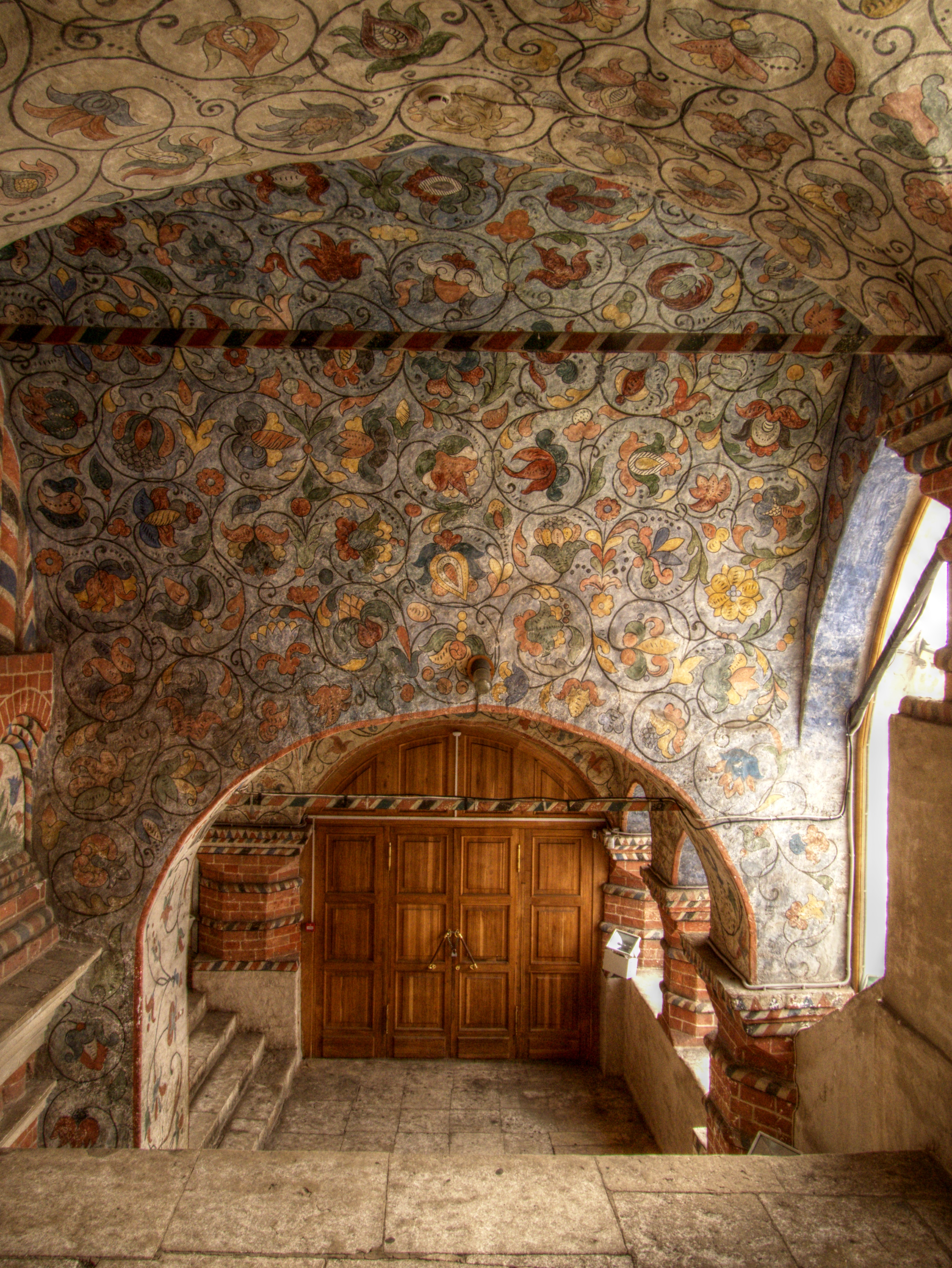 Inside Saint Basil cathedral on the Red Square, Moscow (Russia. I shot in raw, converted it to HDR and tonemapped using Qtpsfgui, Mantiuk algorithm with the following settings: pregamma: 1 contrast_mapping: 0.05 saturation_factor: 1 post-processed with Gimp